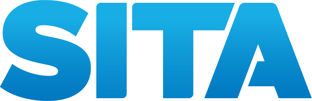 SITA logo